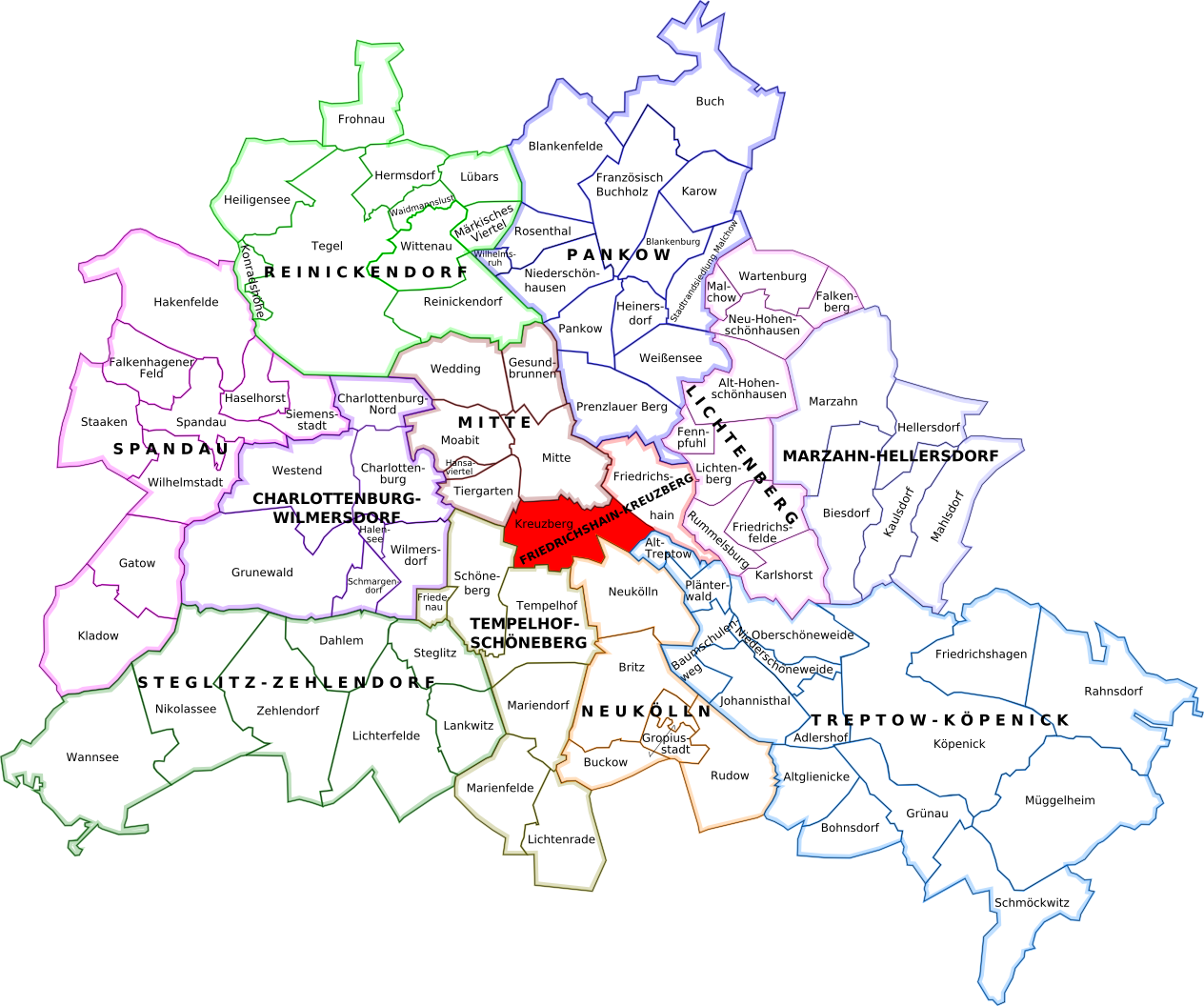 A map of the location of Kreuzberg in Berlin